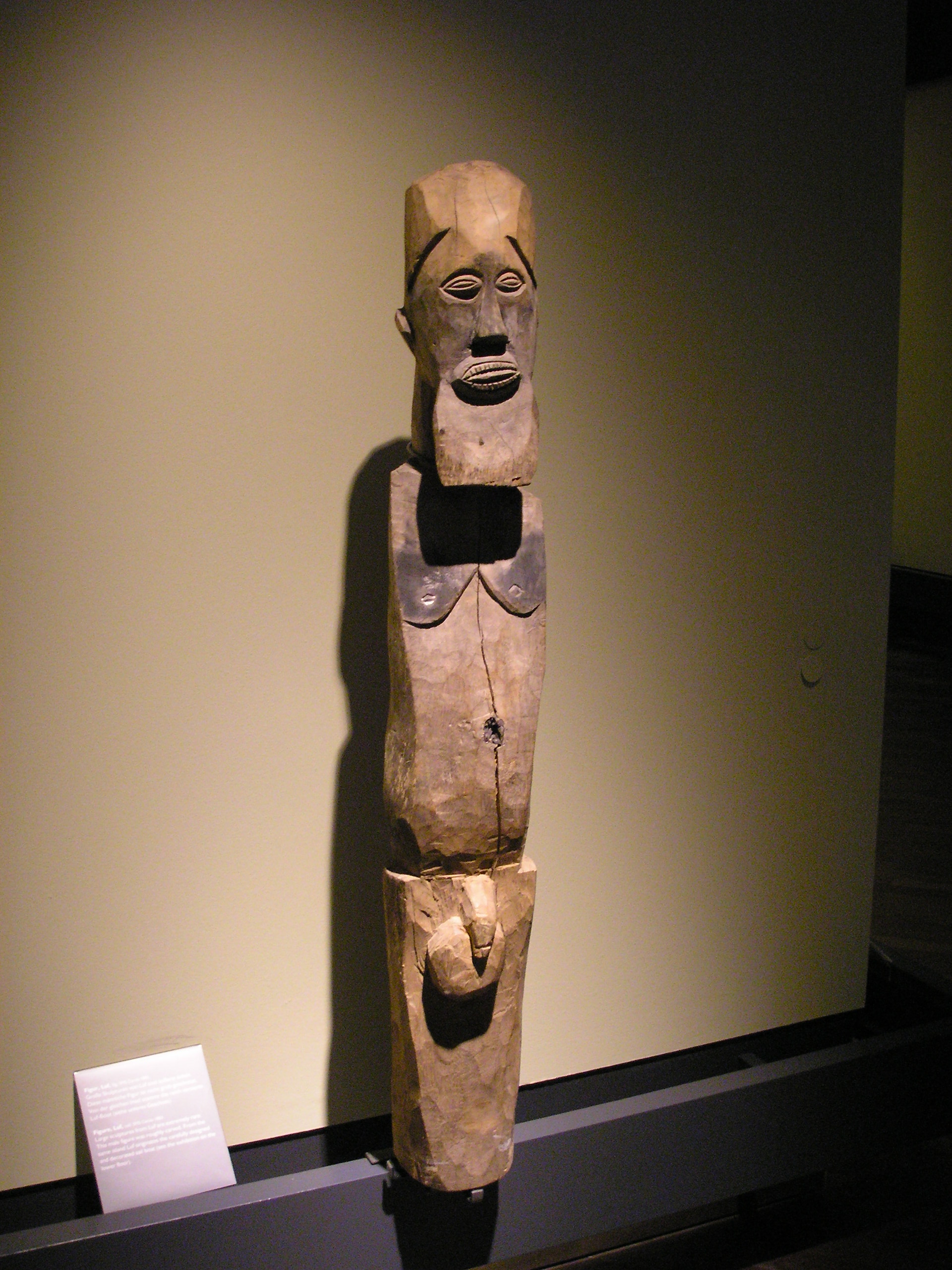 Large sculptures from Luf off the coast of Papua New Guinea are extremely rare. This male figure was roughly carved. From the same island of Luf originates a big boat that is also exhibited in the groundfloor at the Ethnologisches Museum, Berlin-Dahlem.